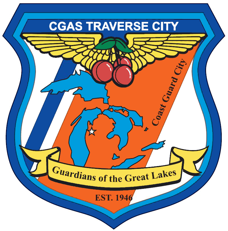 AIRSTA Traverse City Patch